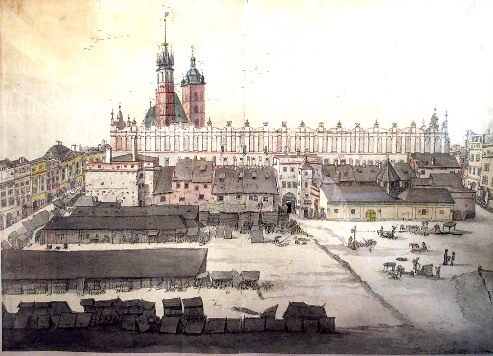 Cloth Hall in Cracow in 1830